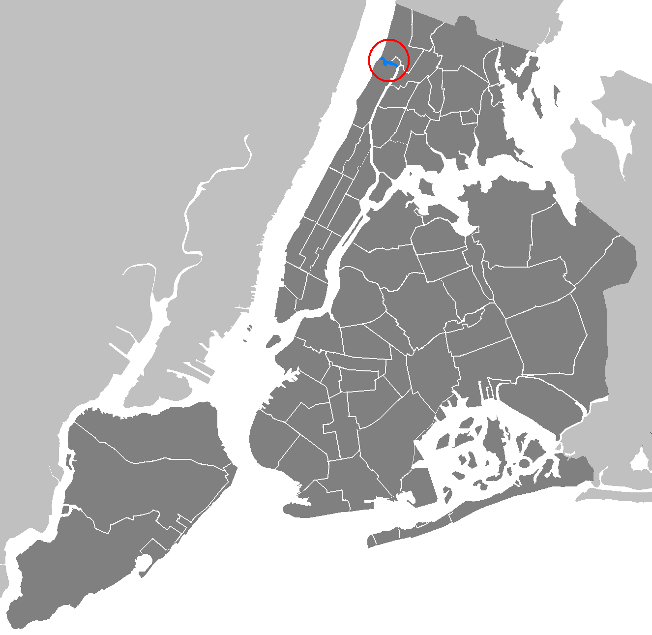 Maps of New York City: New York City - Manhattan - Spuyten Duyvil Creek.PNG